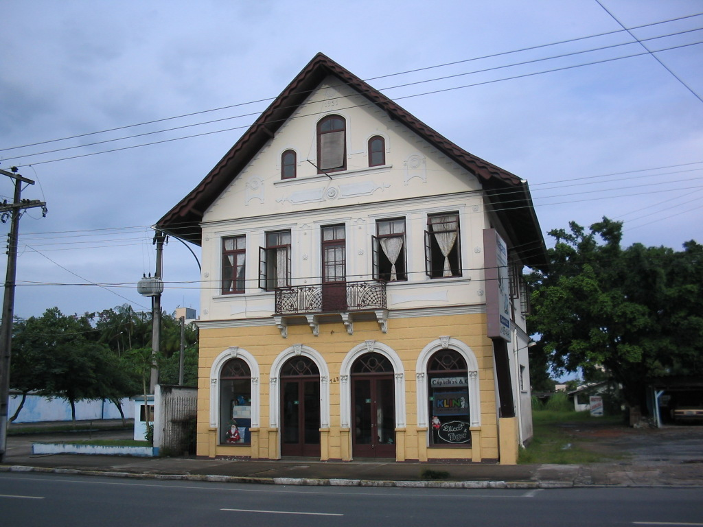 A typical German house in Joinville, built in 1921 by the butcher Otto Schroeder, son of German immigrants. Nowadays it is a sweet store.